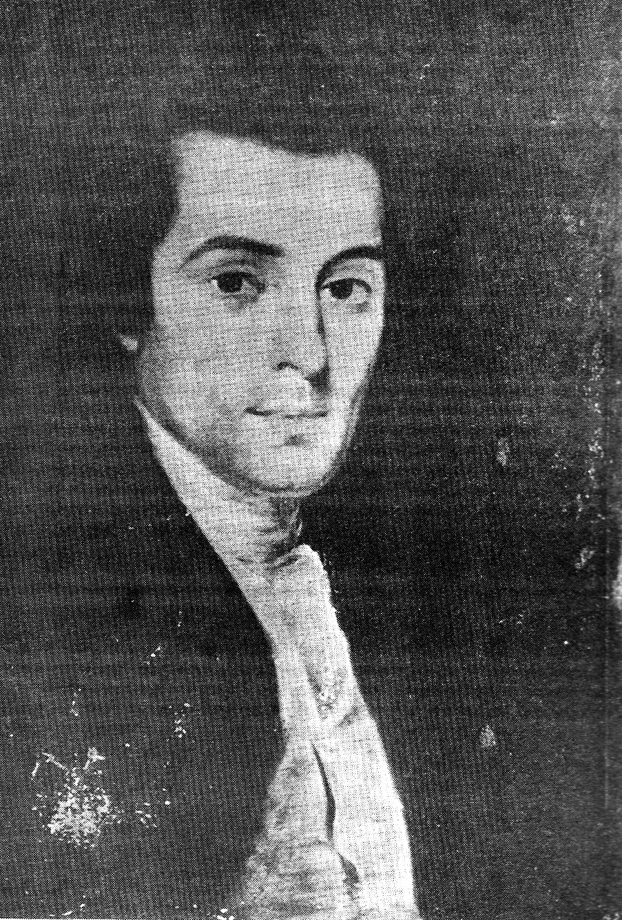 This is a scan of a copy of a painting of Dr George Hume Steuart (1747-1788), Maryland physician and landowner. Son of George H. Steuart (politician) (1700-1784). The younger Steuart changed his name to George Steuart Hume (also known as George Home) for inheritance purposes and emigrated to Scotland in 1758.